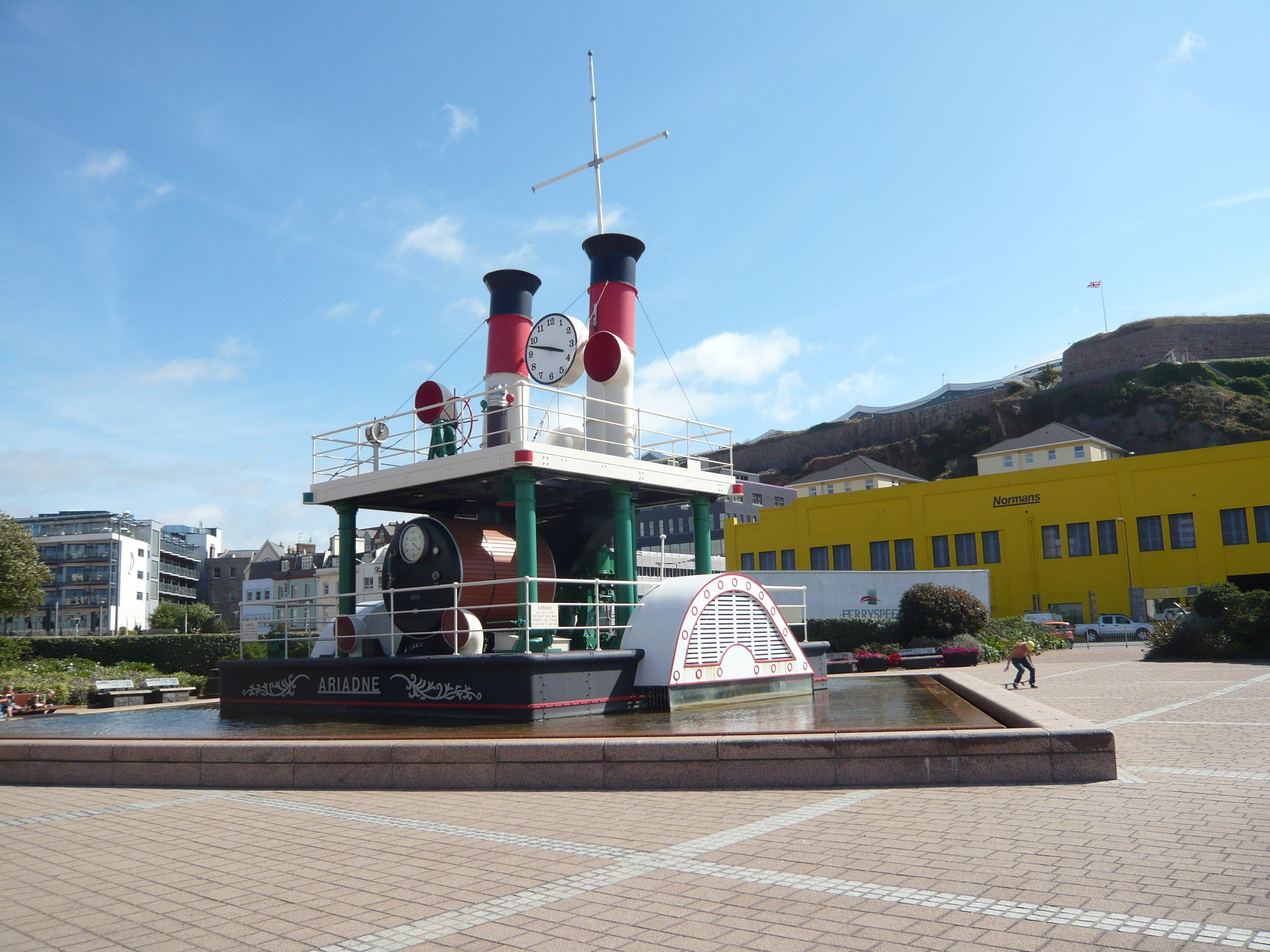 Steam Clock in St. Helier, Jersey, Channel Islands.